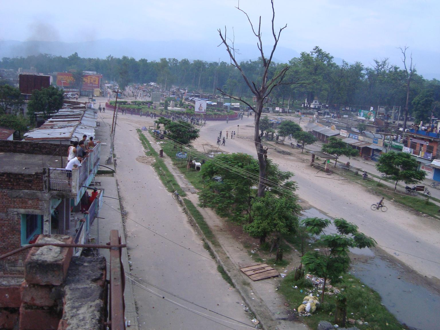 A place in Kailali Distict in Nepal